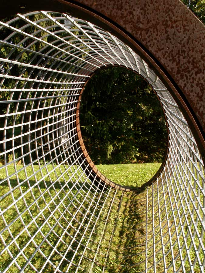 Österreichischer Skulpturenpark, Susana Solano, A juste en el Vacio (Adjustment to the vacuum), 1995/96, detail